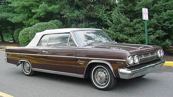 1965 Rambler Classic 770 convertible by American Motors Corporation (AMC) - finished in brown (dark "Corral Cordovan" metallic - P12A) and standard white power top.